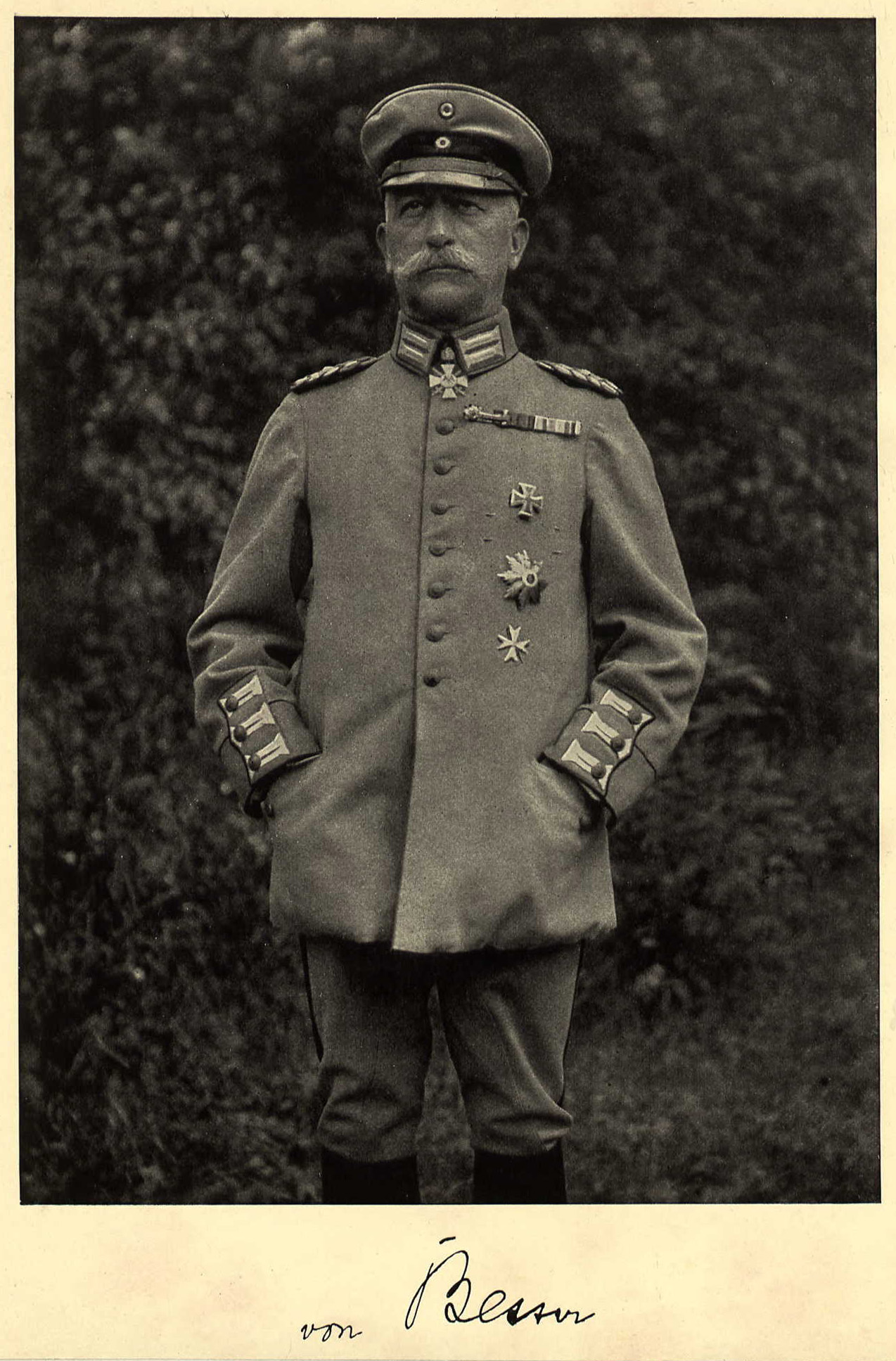 lieutenant general Alfred von Besser